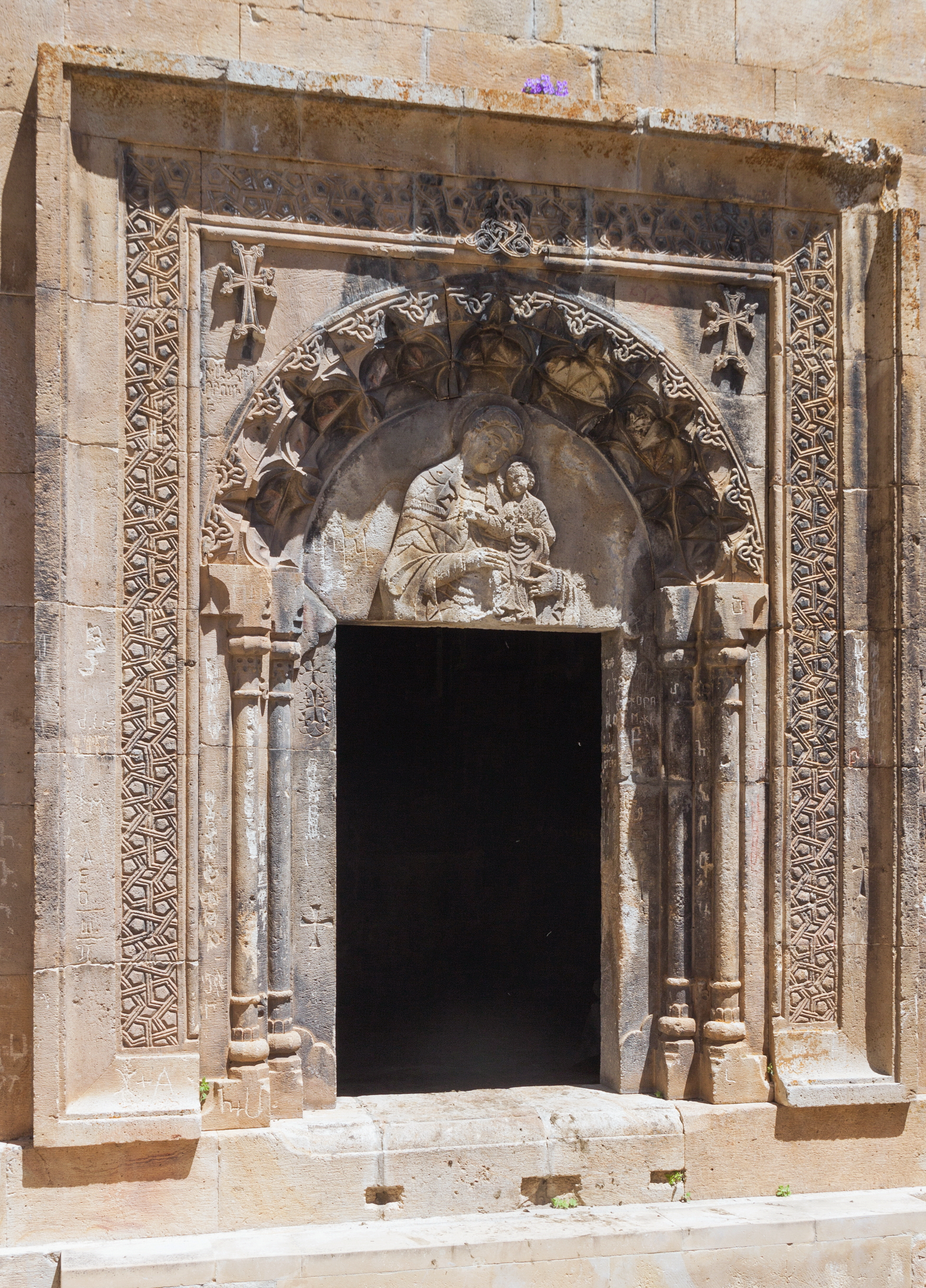 Portal. Spitakavor monastery. Vayots Dzor Province, Armenia.